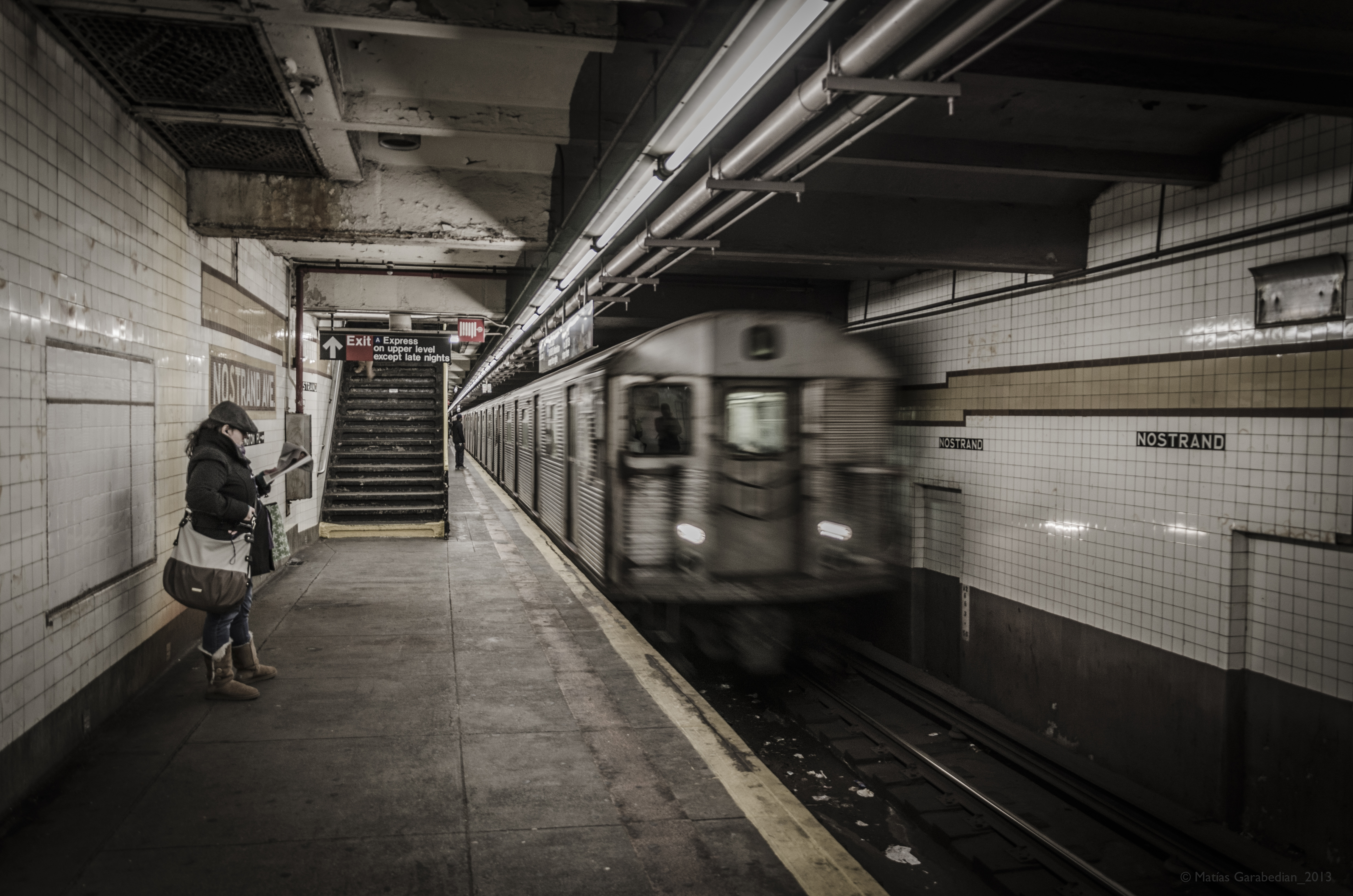 New York City Subway